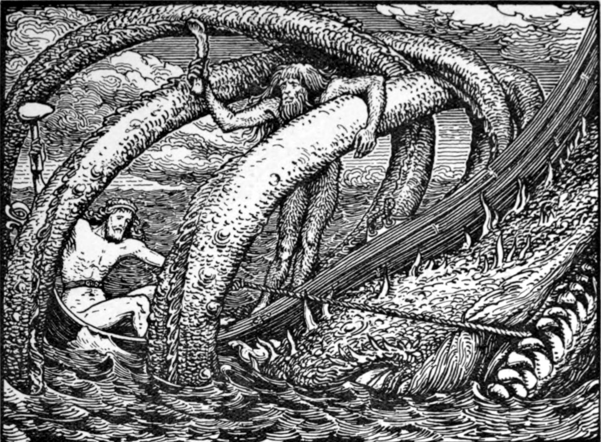 Illustration to Hymiskviða. The list of illustrations in the front matter of the book gives this one the title Thor's Fishing.